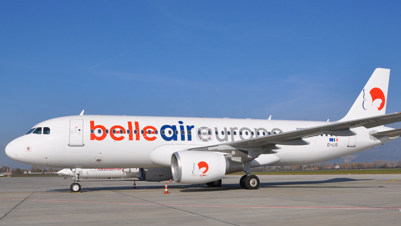 Airbus A320 EI-LIS